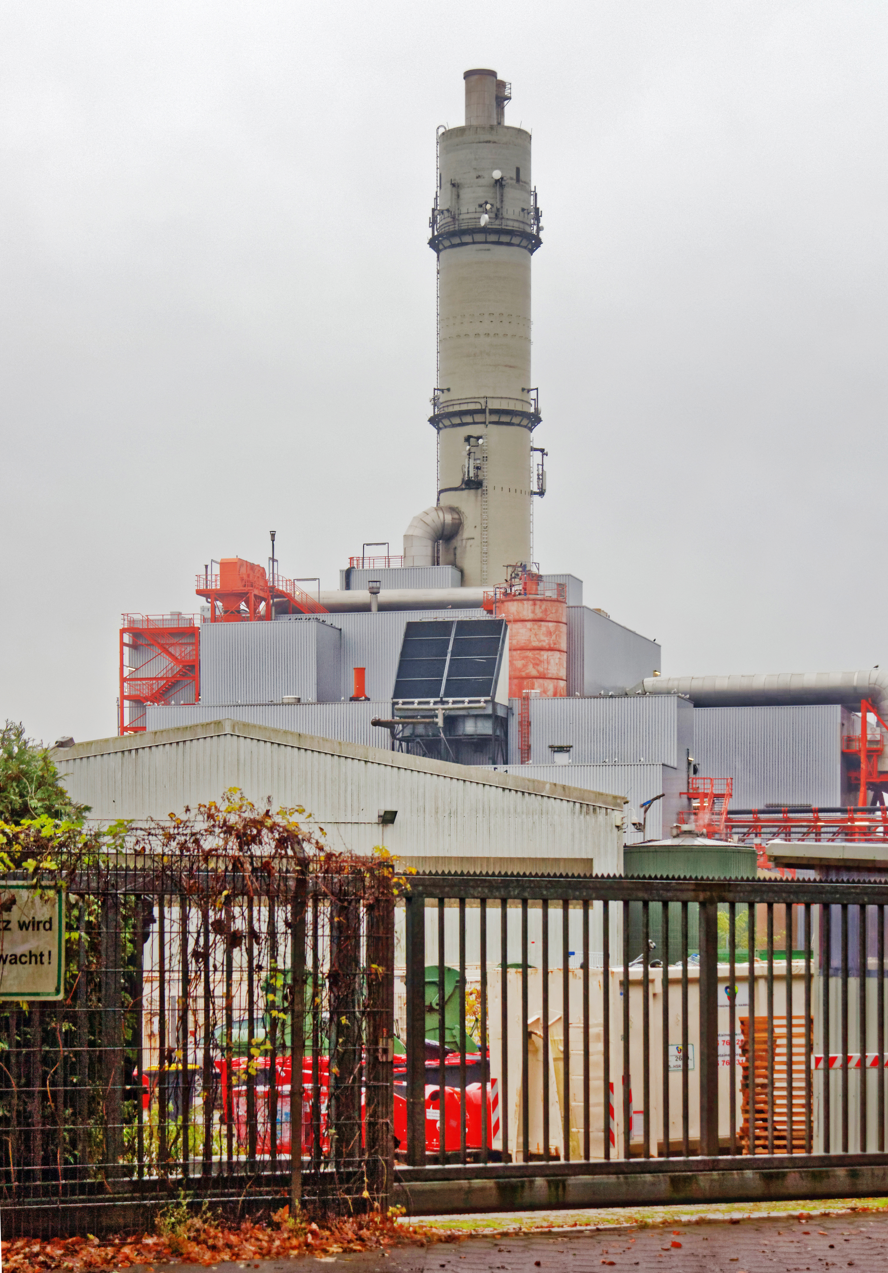 Incinerator Stellinger Moor in Hamburg, main building